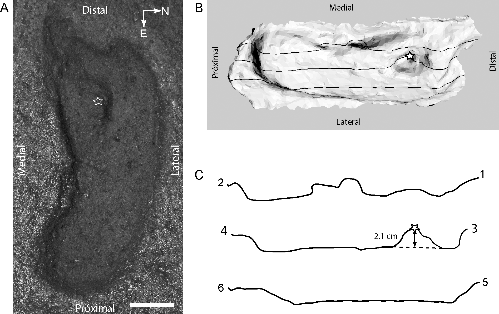 A) Photography of the original sedimentary structure attributed to a human footprint that was excavated at the Pilauco site. A sediment lump is apparently embedded within the trackbed (star). Scale bar 5 cm. B) Three-dimensional model in dorsal view with a virtual 45° tilt toward the south to facilitate the observation of profile lines 1–2, 3–4 and 5–6 drawn on the 3D model surface (123Catch from Autodesk and trial version of Rhino4, McNeel &Associates). C) Profile lines: [1–2] crossing from the “heel”, “medial longitudinal arch” and “hallux”; [3–4] passing by the midline. Notice that the sediment lump is 2.1 cm high from the footprint base; and [5–6] line passing through the “heel”, “lateral longitudinal arch” and “lateral digits”.